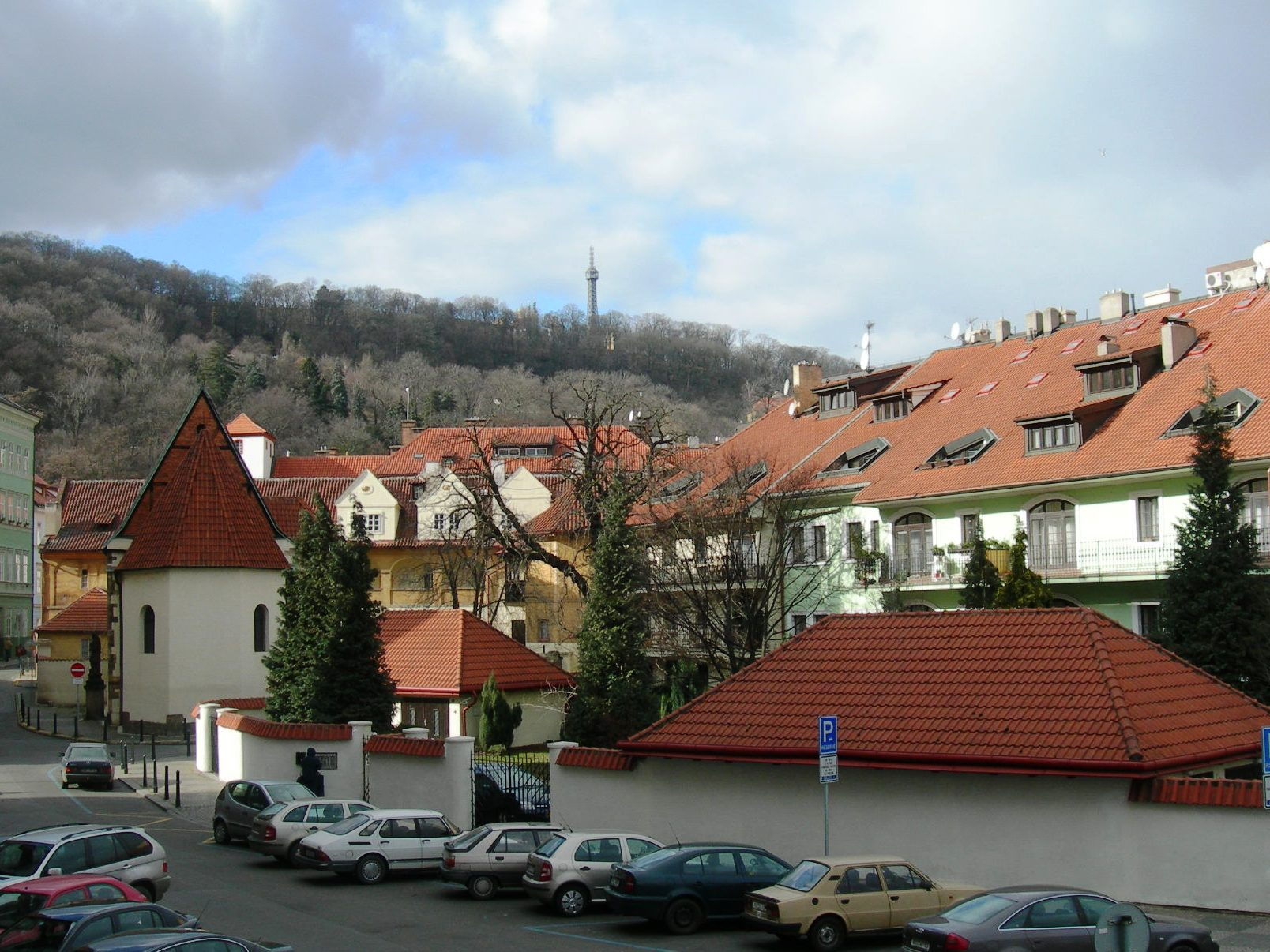 Prague 1 St John church Na pradle